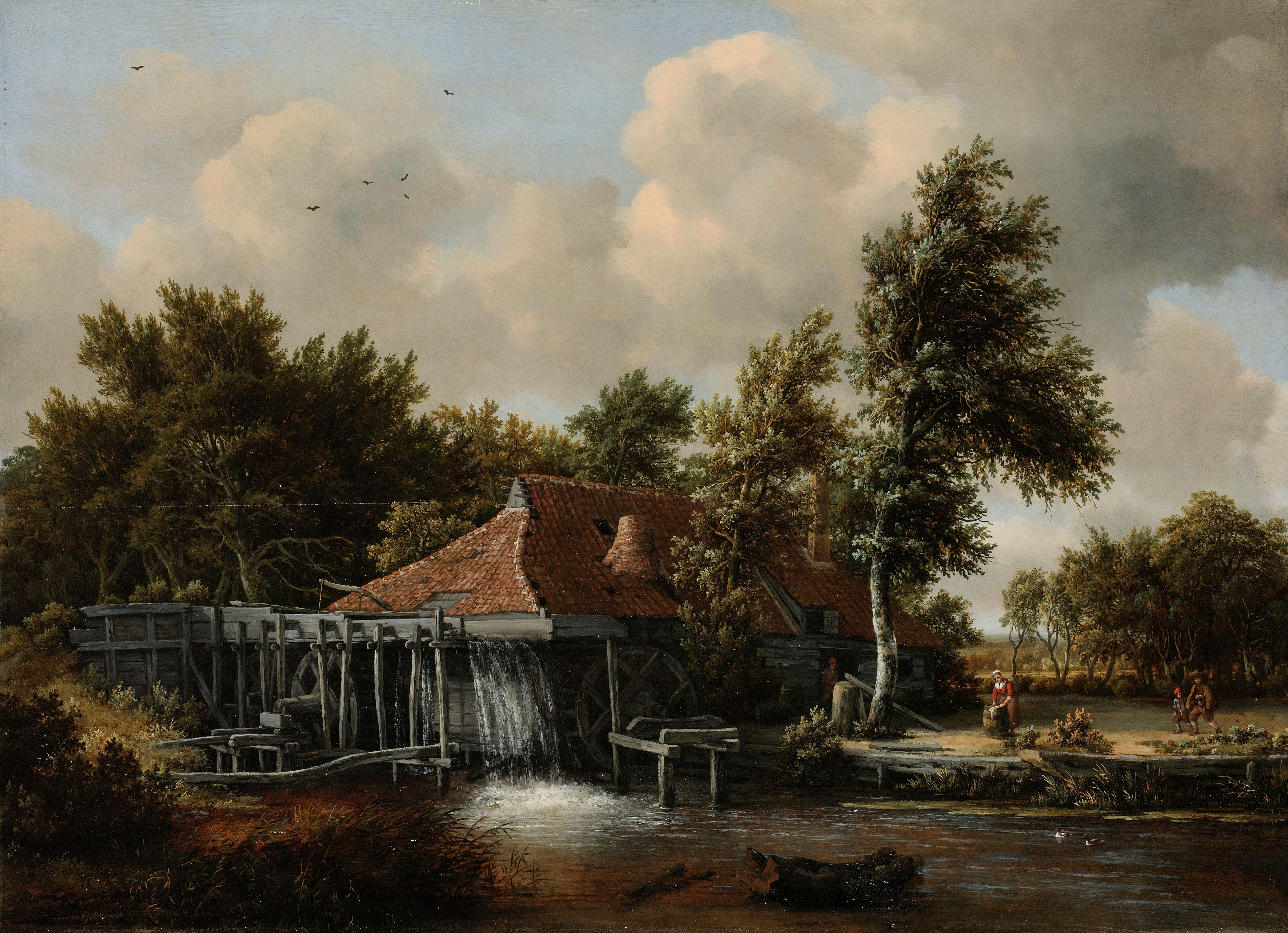 A watermill. In front of miller's house a woman does the laundry in a barrel. To the right a man and a boy are approaching. The mill is surrounded by dense trees.